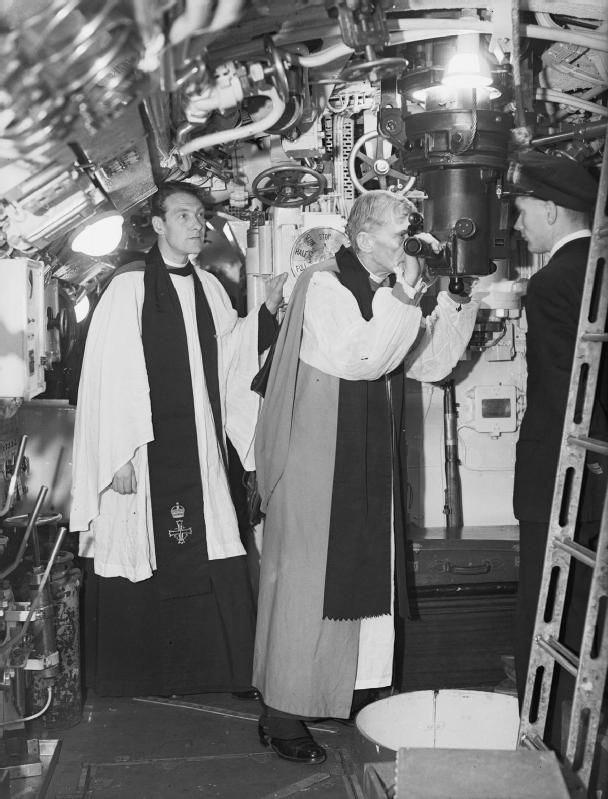 Bishop of Liverpool, Albert Augustus David looking through the periscope during his inspection of a British submarine after the ceremony of the blessing. With him is the Senior Chaplain of the Port, Rev A E Hendy, RNVR.